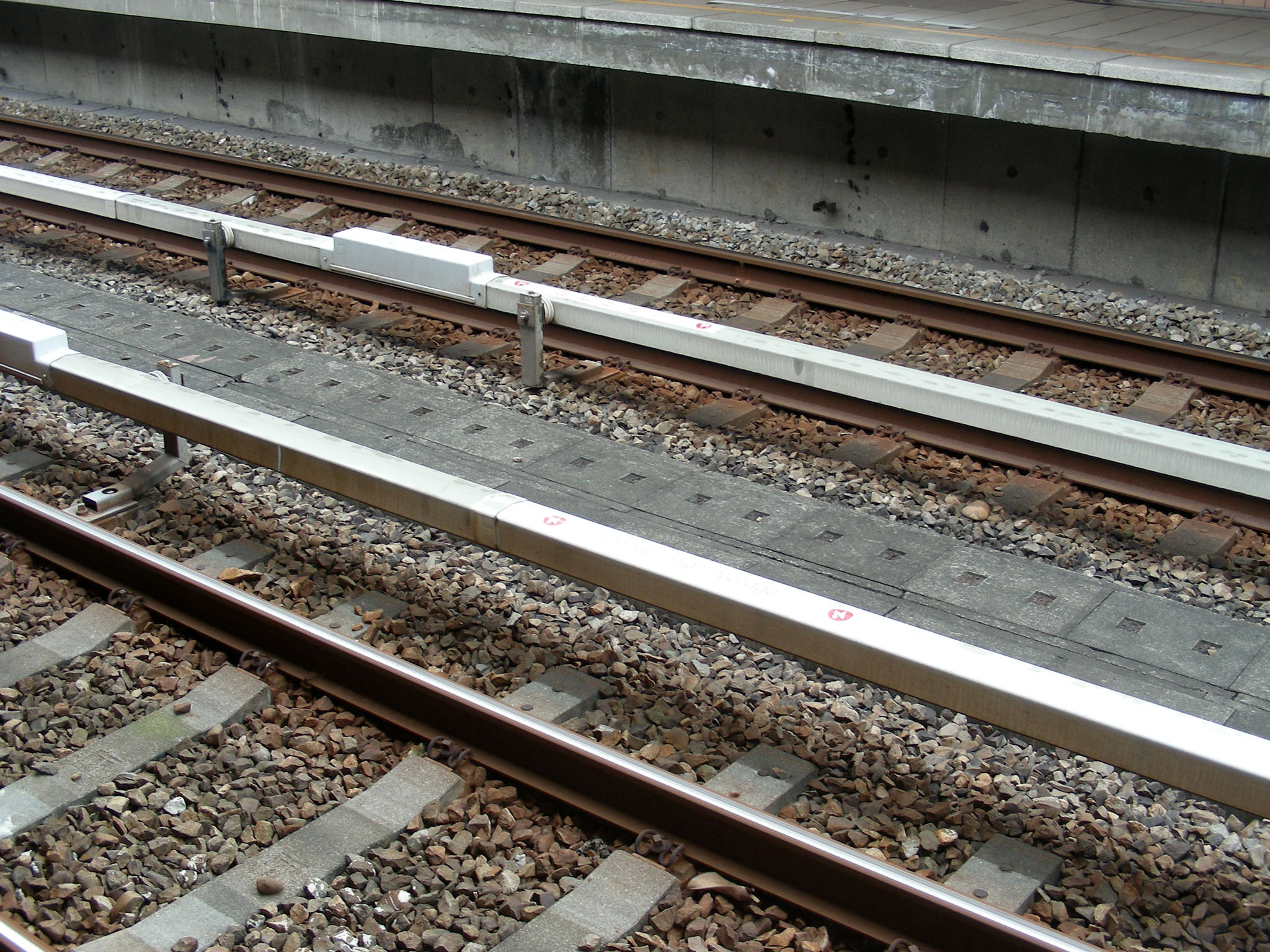 The third rail of Taipei Metro Tamsui Line, Taiwan.